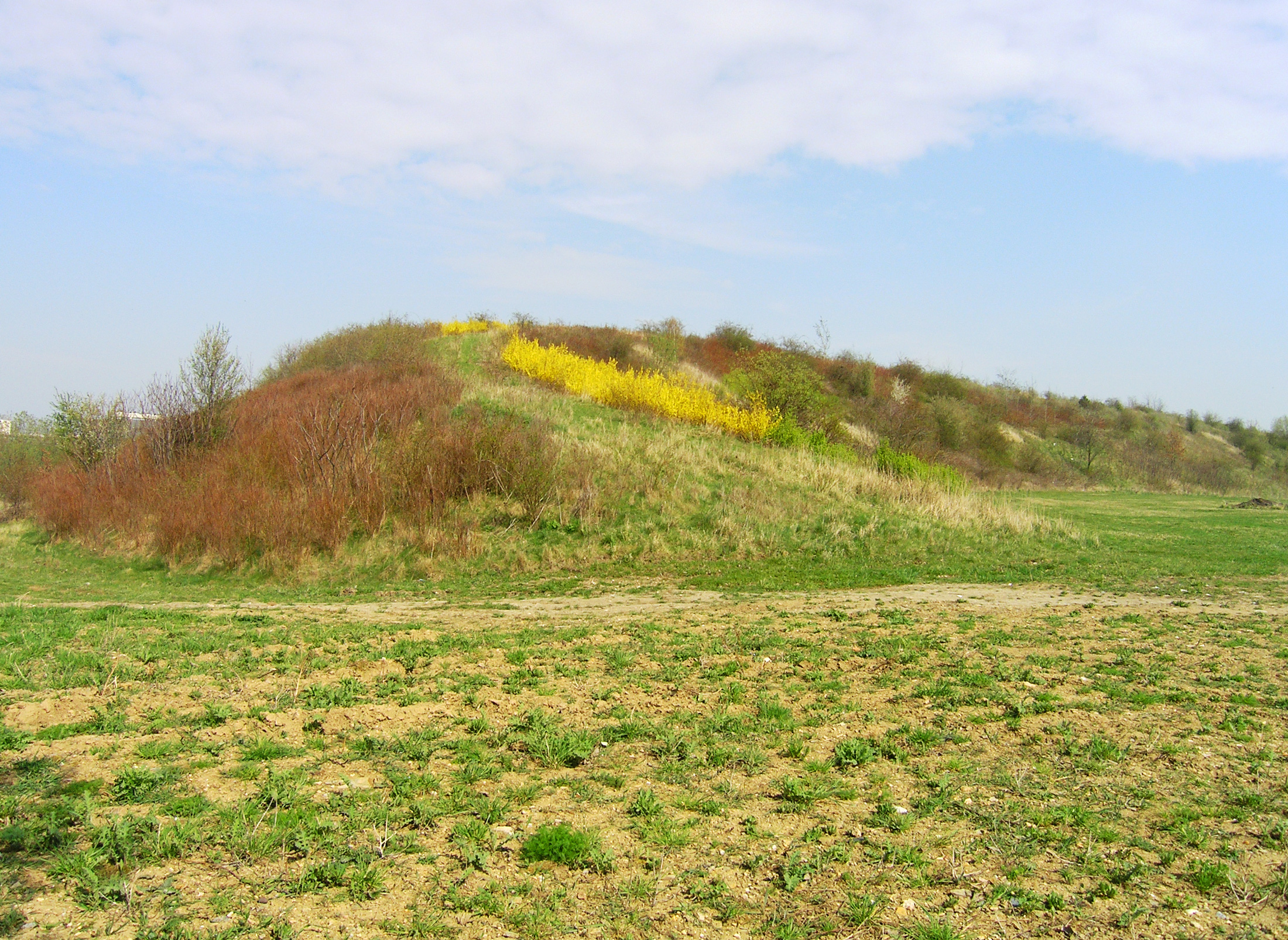 Noise protection hill in Chodov, Prague